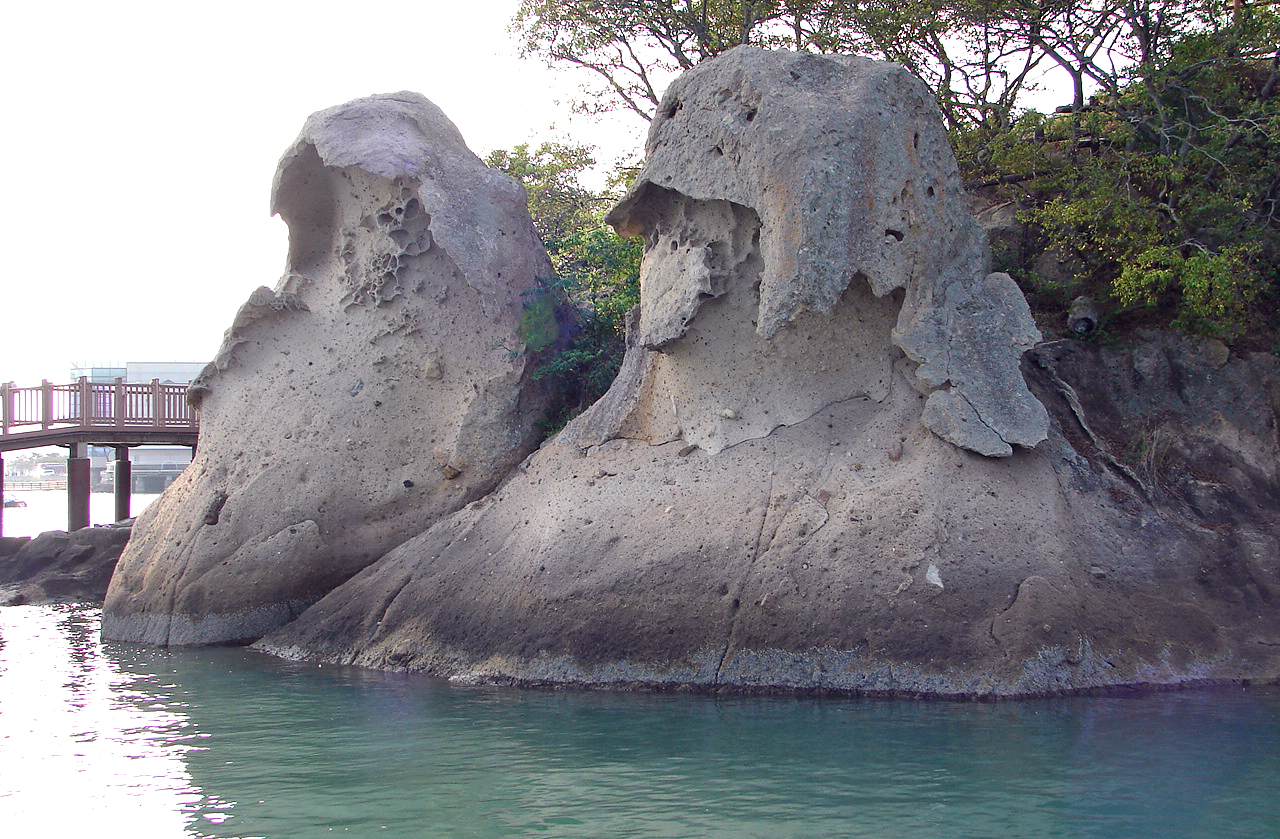 Sandstone and Tafoni formations found on the shore of Mokpo's east harbor, at the mouth of he Yeongsan River, South Jeolla Province, South Korea. The name of this formation at Mokpo is "Gatbawi", meaning a rock shaped like a Gat, a traditional Korean constume item worn like a hat.